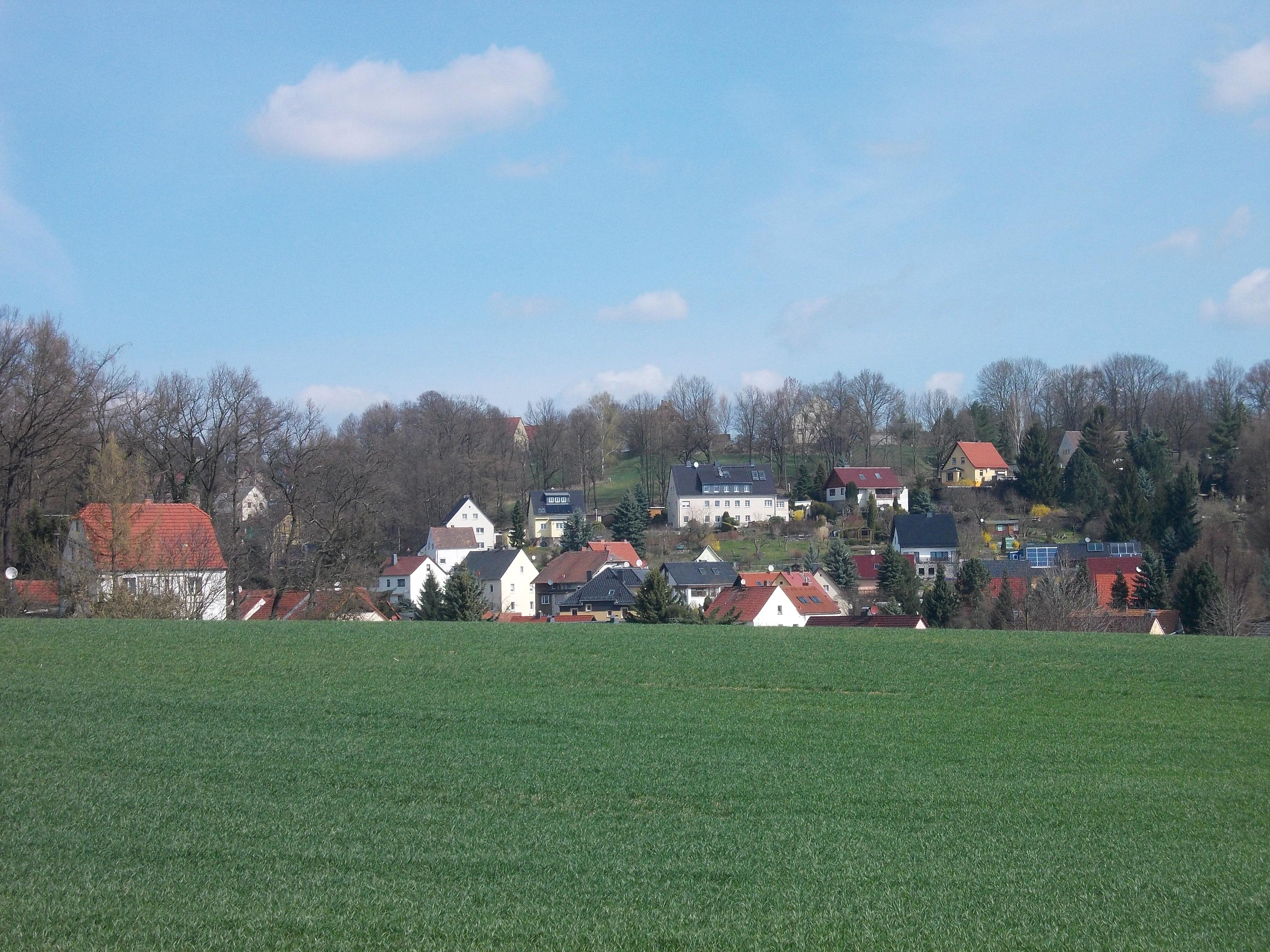 The northern part of Eckartsberg (Mittelherwigsdorf, Görlitz district, Saxony), view from Hasenberg hill